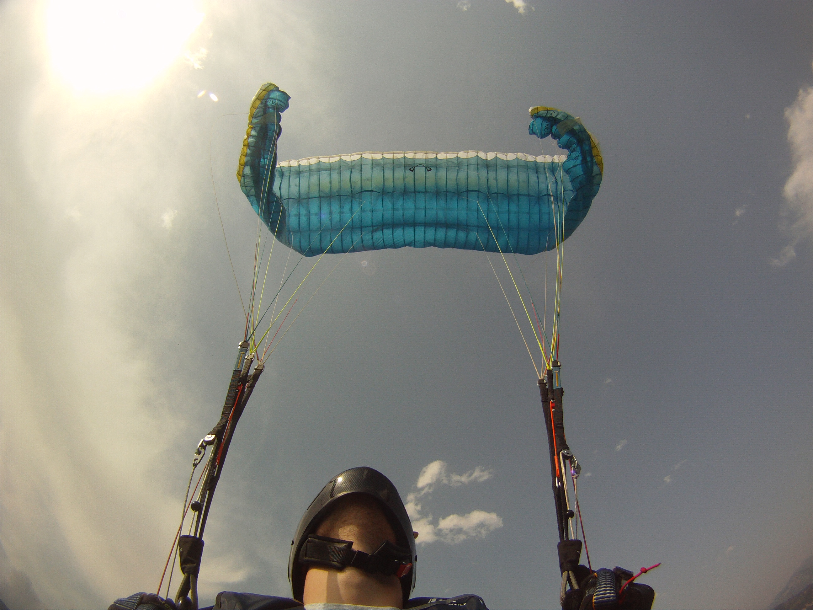 A tailslide with a Paraglider (Advance Sigma 8)